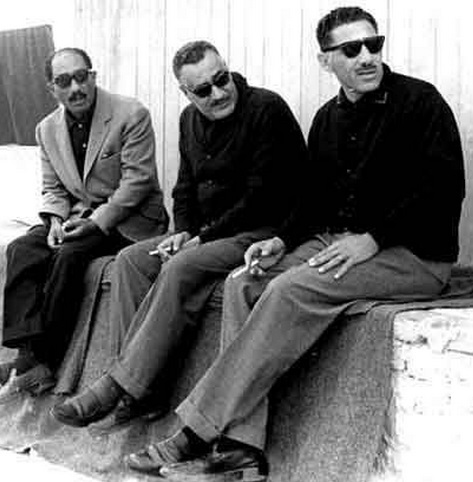 Anwar Sadat (left), Gamal Abdel Nasser (center) and Abdel Hakim Amer (right) at Burj al-Arab